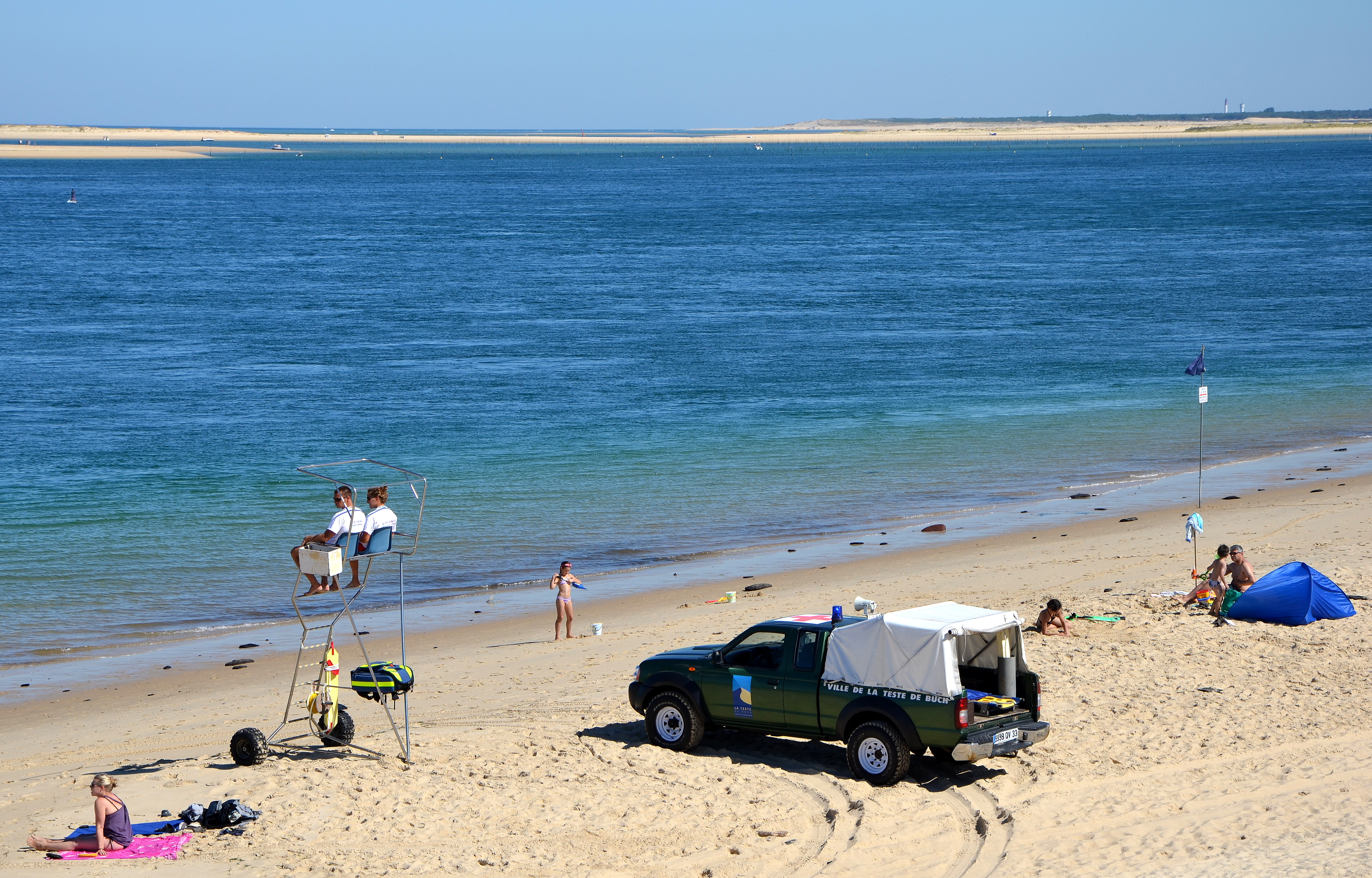 Lifeguards at the beach of Petit Nice, La Teste de Buch, Gironde, Aquitaine, France